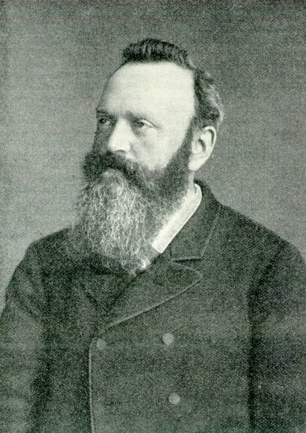 Johann Eduard Jacobsthal